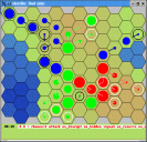 An example of a simple xbattle game, with just three players, water plus land and cities.